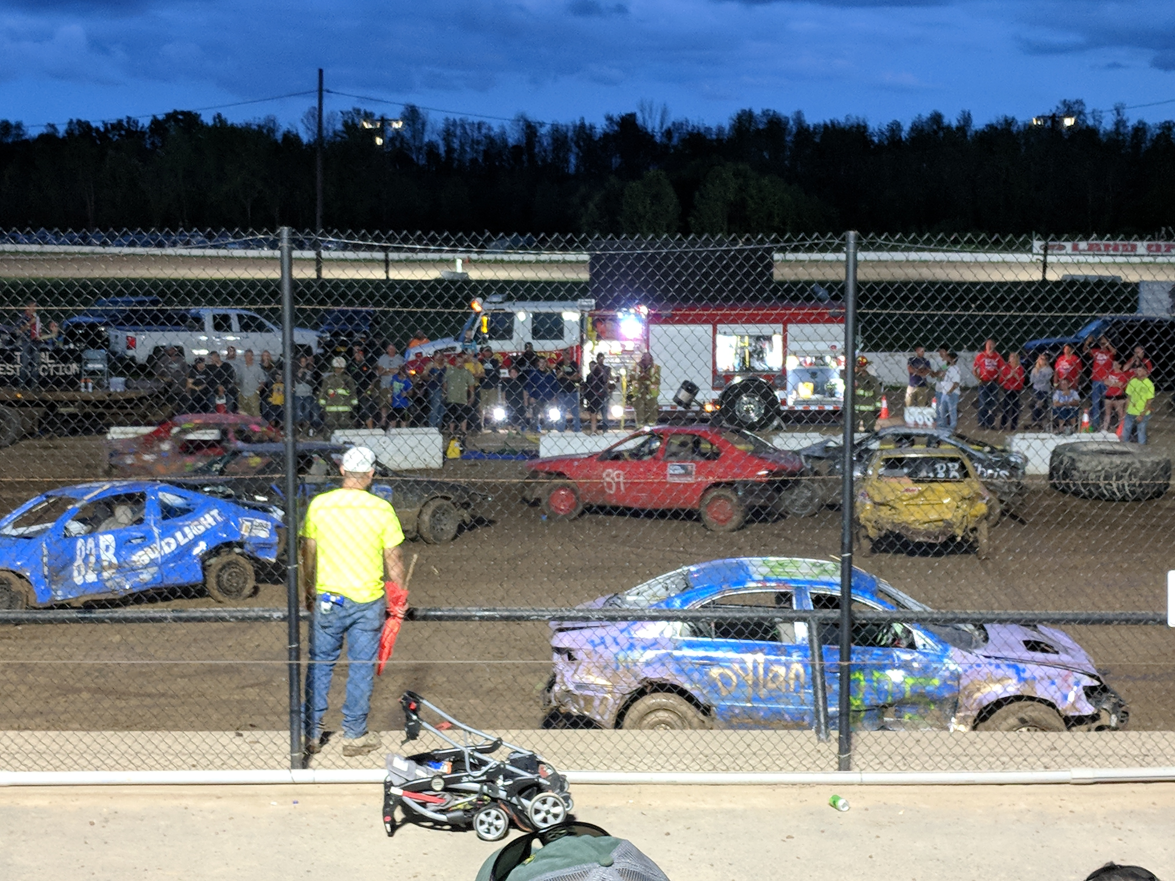 Demolition derby at the 2018 Ontario County, New York Fair